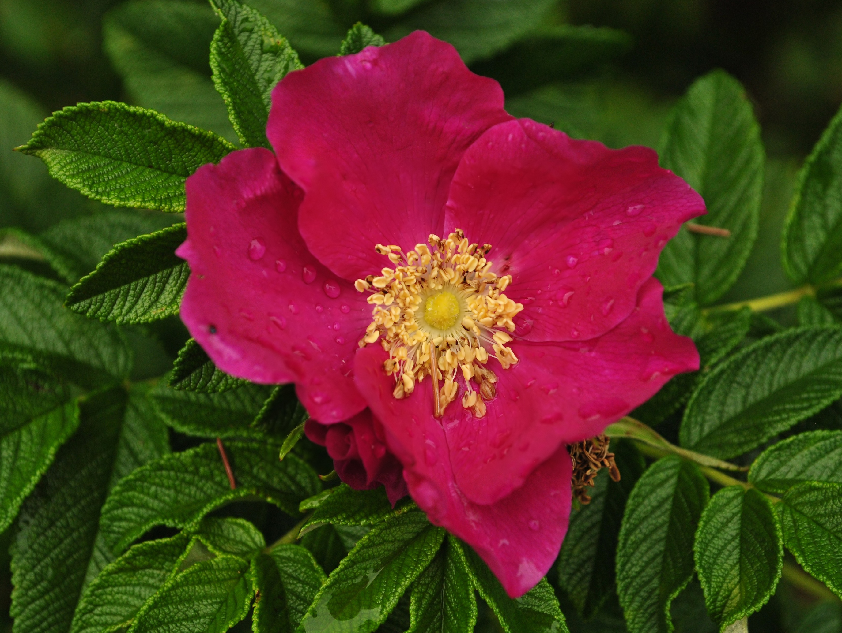 A Rosa Rugosa specimen in the province of Québec, Canada.